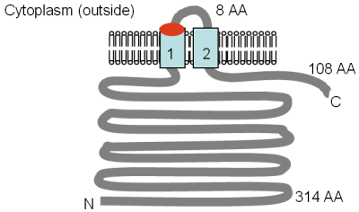 Author: Revel Drummond